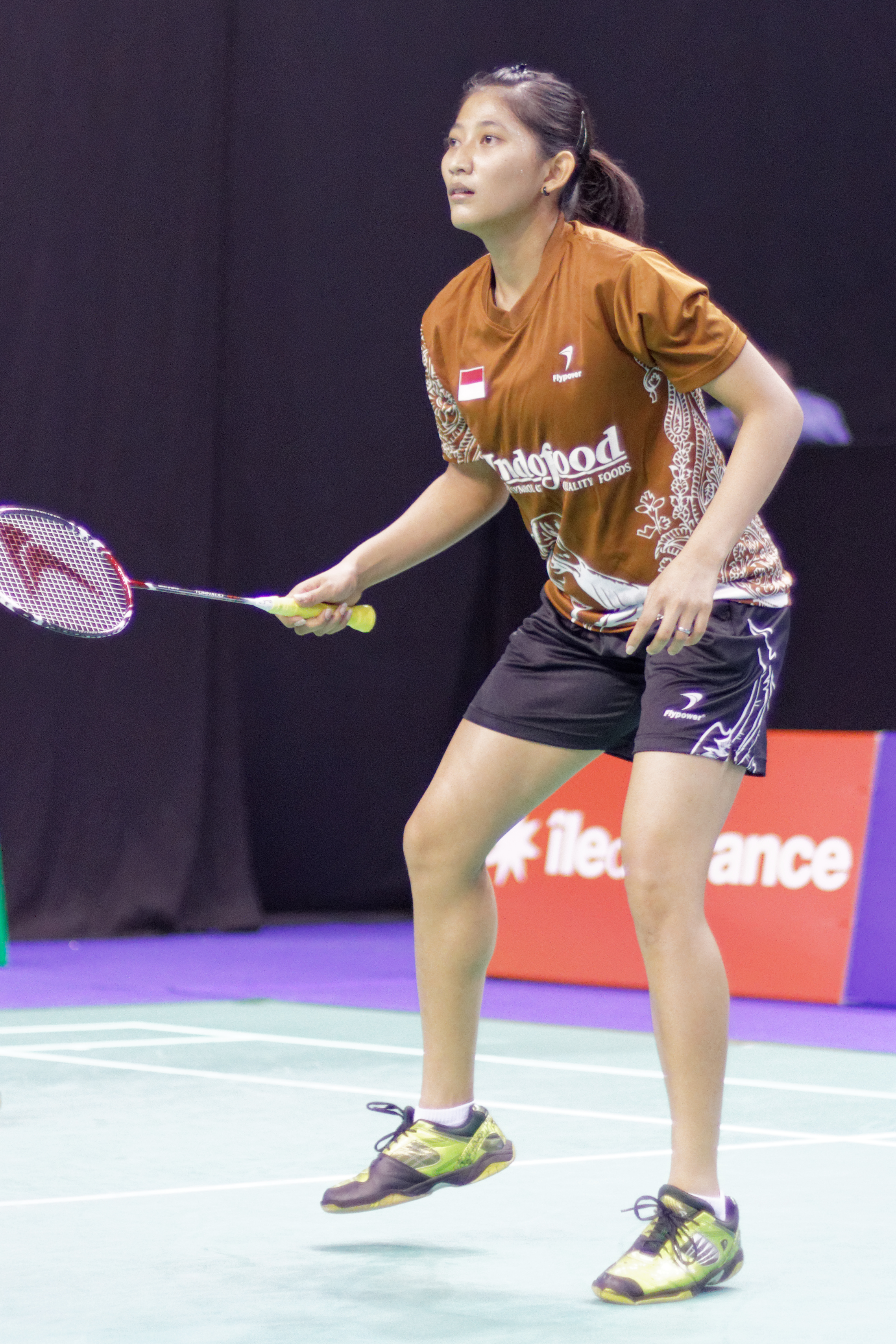 2013 French open. Women's doubles eightfinal. Gebby Ristiyani Imawan and Tiara Rosalia Nuraidah vs Misaki Matsutomo and Ayaka Takahashi.